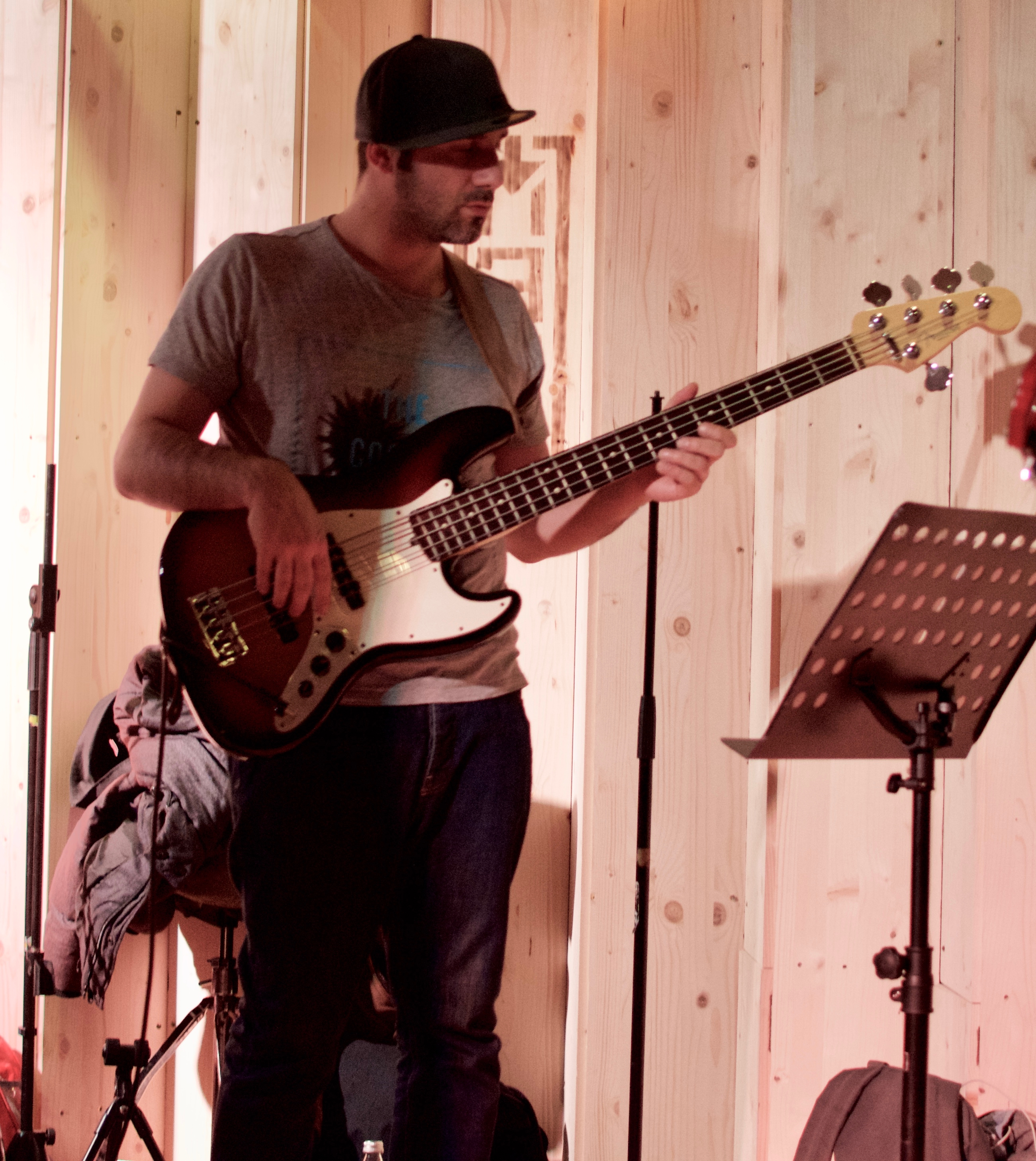 The Bulgarian musician Dimitar Karamfilov